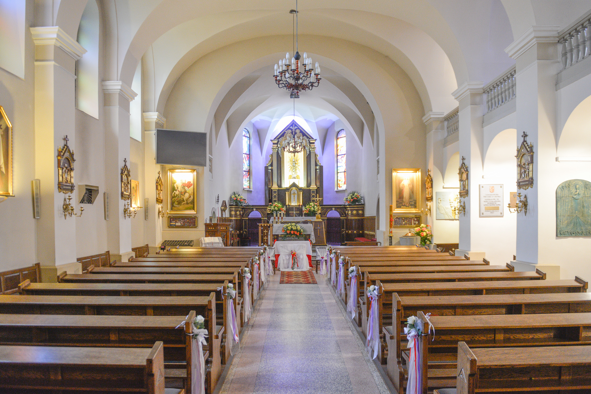 Interior photography of the Church of the Holy Trinity in Bielsko-Biała, Poland